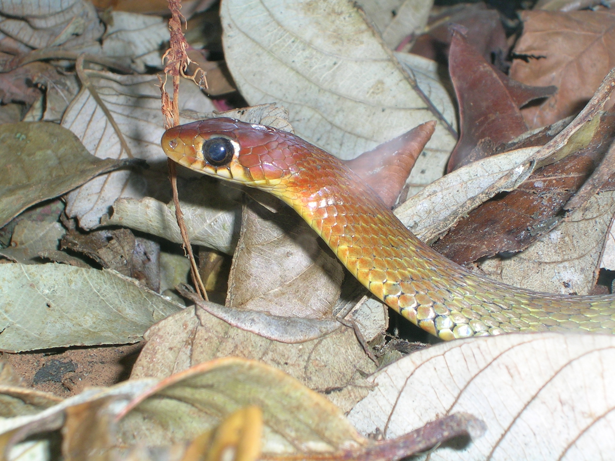 Amphiesma monticola, Wayanad, Kerala